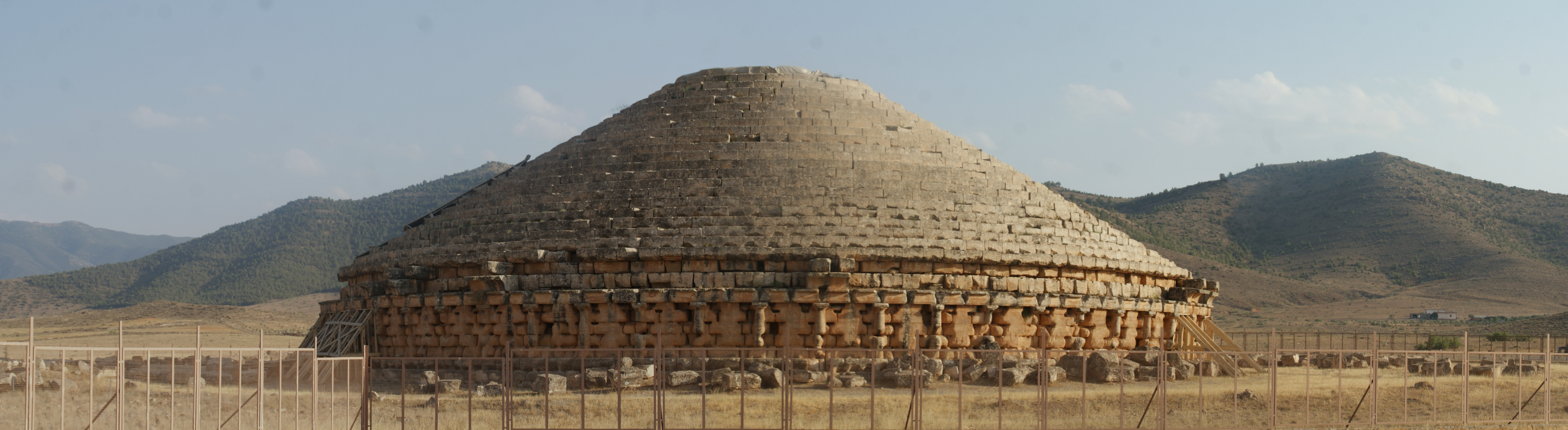 Imedghassen, Boumia, Batna Province, Algeria